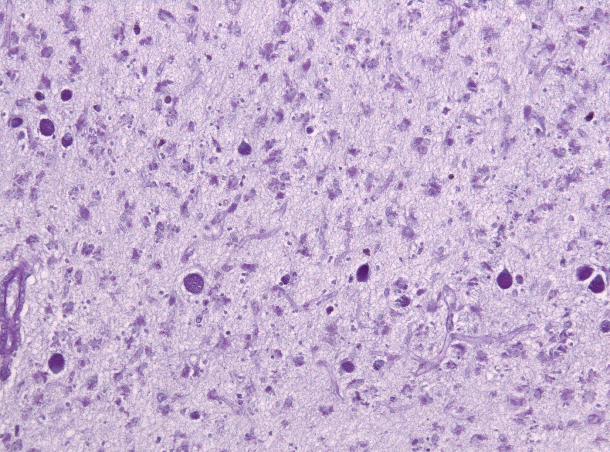 Histopathological specimen from the brain in neuronal ceroid lipofuscinosis (PAS stain, x100 magnification). The insoluble material is stored especially in the neurons and the number of cortical neurons is heavily reduced in this specimen. Storage material is also evident in astrocytes.